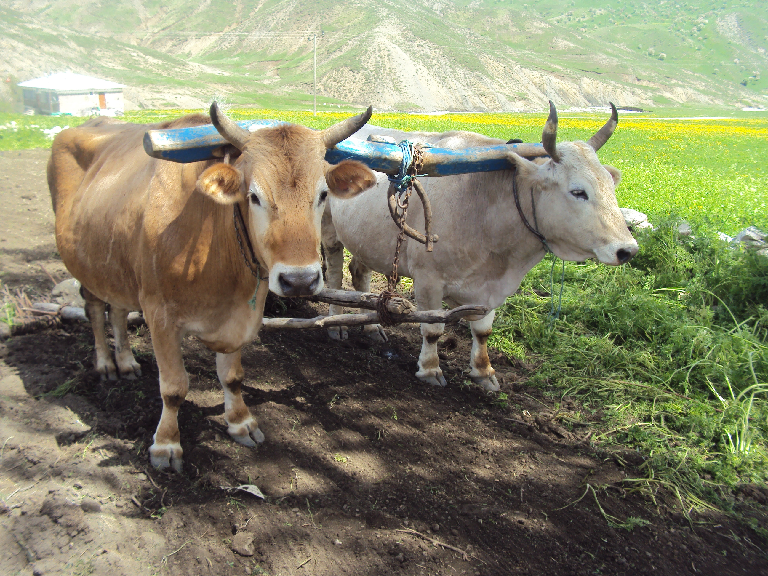 A pair of oxen in a village of Eleşkirt, Ağrı. Kurdî: Cotek gayên binê nîr de, gundê Qopiza Jorîn, Zêtka.